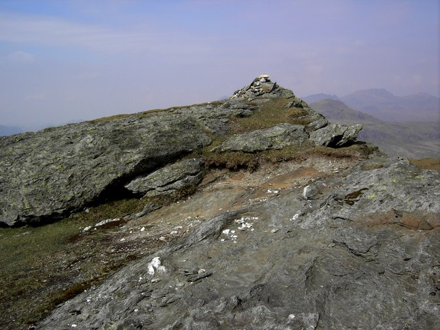 Cnoc Coinnich Summit The small summit cairn on Cnoc Coinnich.